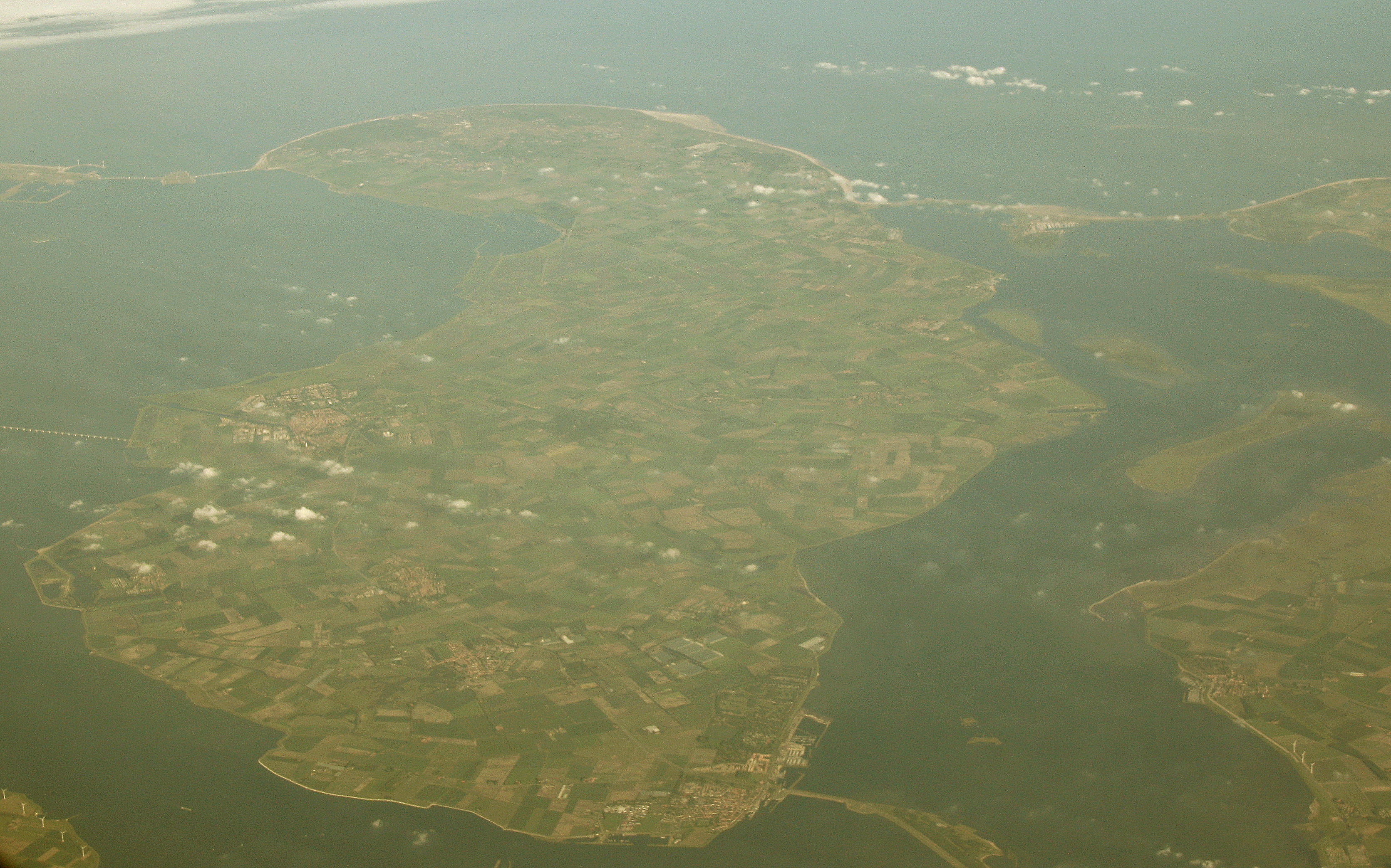 The Dutch island of Schouwen Duivenland as seen from 13000 ft.